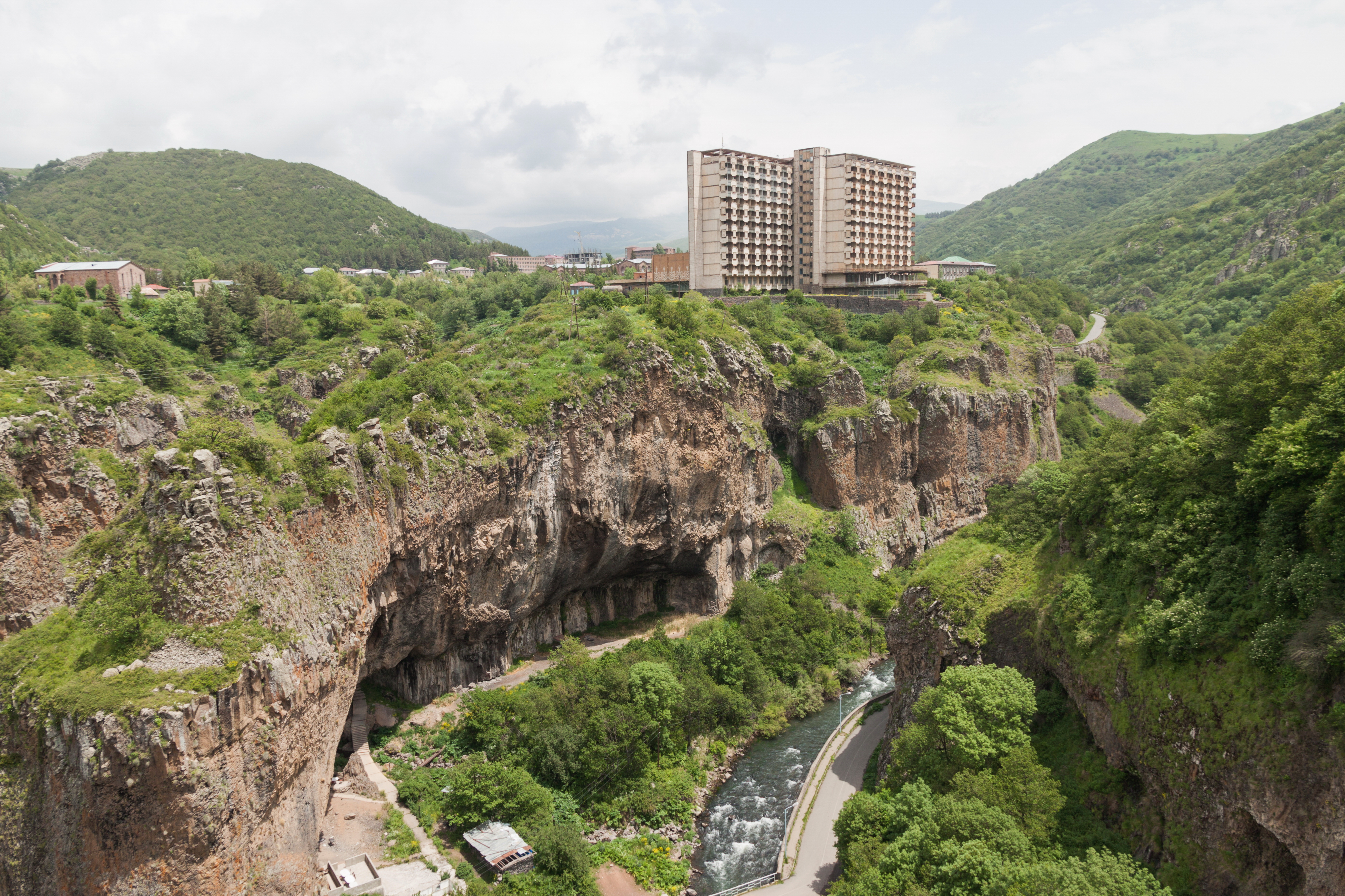 The view from the bridge over the Arpa river. Jermuk, Vayots Dzor Province, Armenia.